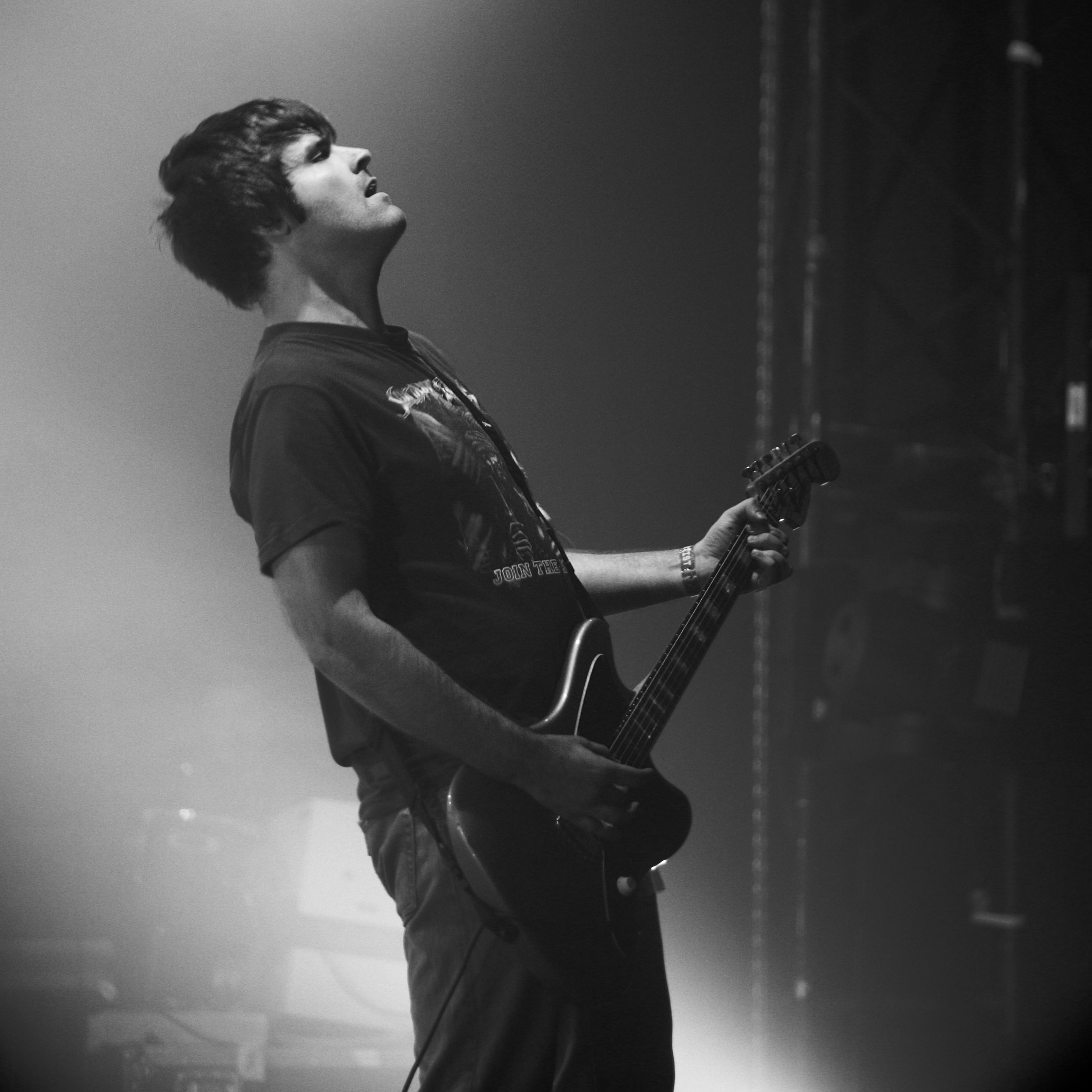 Converge at the Eurockéennes of 2007